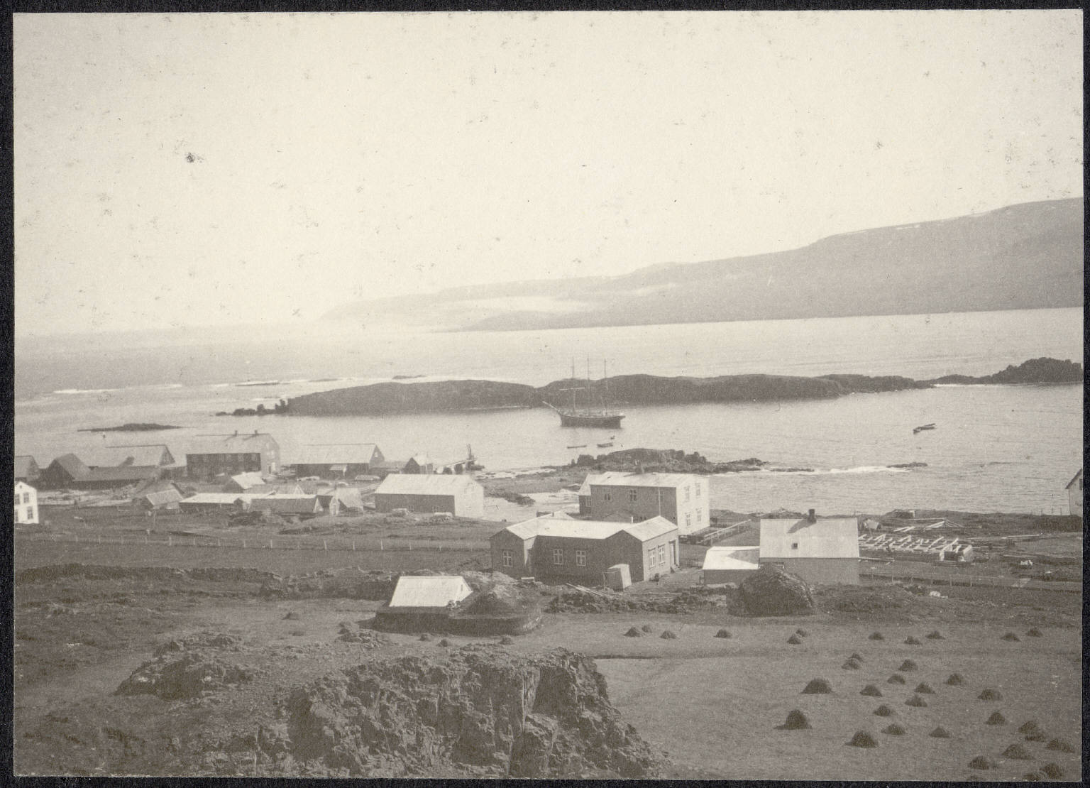 Collection: Icelandic and Faroese Photographs of Frederick W.W. Howell, Cornell University Library Title: Vopnafjörður. Date: ca. 1900 Place: Vopnafjörður (Iceland : Town) Medium: gelatin silver print Repository: Fiske Icelandic Collection, Rare & Manuscript Collections, Cornell University Library Accession: 1923.6.58 URL: Persistent URI: There are no known U.S. copyright restrictions on this image. The digital file is owned by the Cornell Univeristy Library which is making it freely available with the request that, when possible, the Library be credited as its source. We had some help with the geocoding from Web Services by Yahoo!